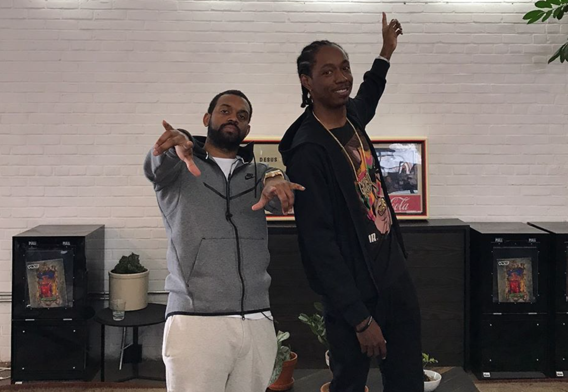 This photo is of Don Trip and Starlito at the Vice Media office, taken by Dharmic X at Don Trip and Starlito's PR firm Audible Treats.